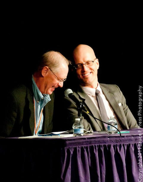 Kendrick Frazier and George Hrab at Northeast Conference on Science and Skepticism, April 2011.